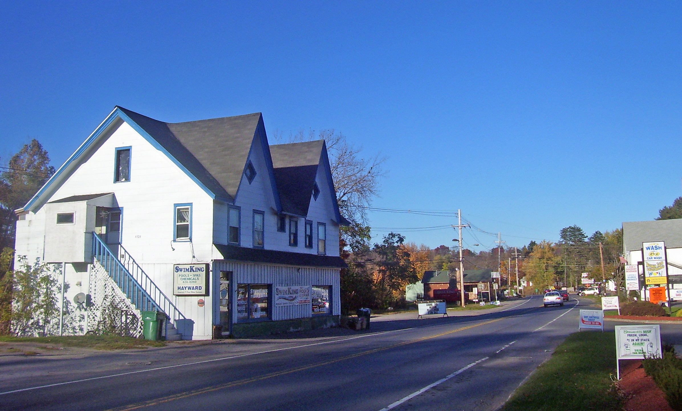 Looking north along US 209 in Kerhonkson, NY, USA